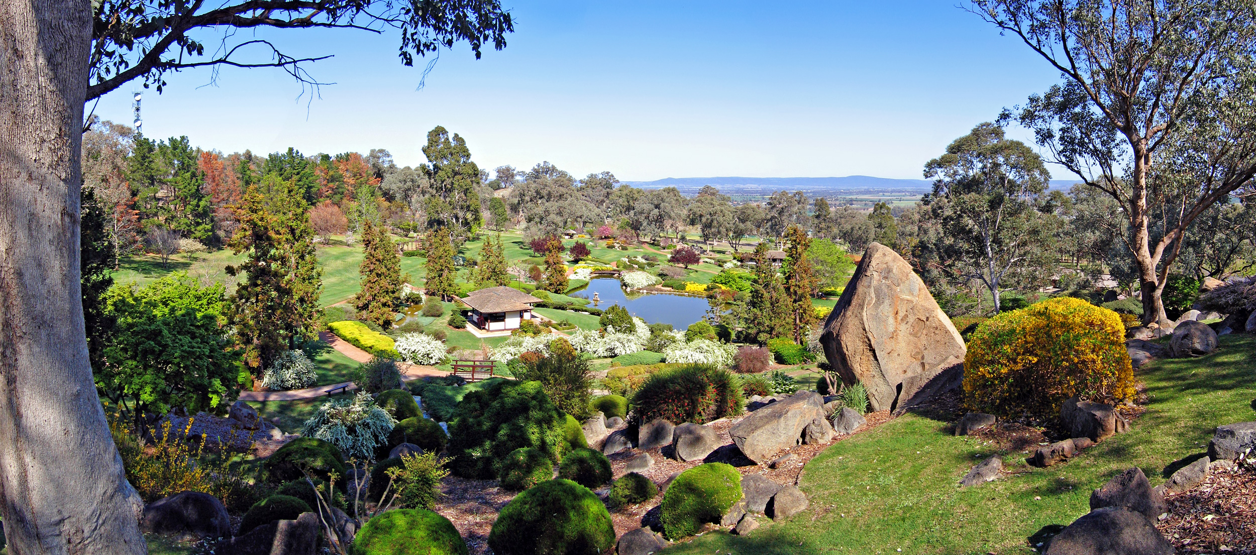 Panoramic view from the Symbolic Mountain Lookout at the Japanese Gardens, Cowra, NSW, Australia, 22 September, 2006.